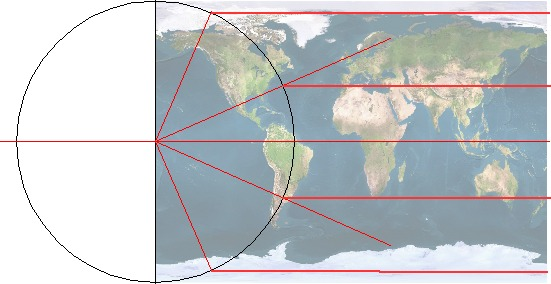 Circles of latitude (let me know if you want the SXD file)